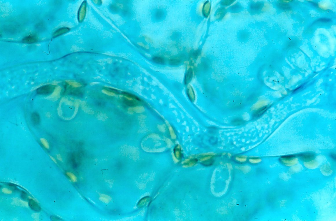 Bremia lactuca haustoria. One can see magnified hyphae with the haustoria (appearing as oval shaped pegs) extending into lettuce cells, a mode of parasitism used to acquire food